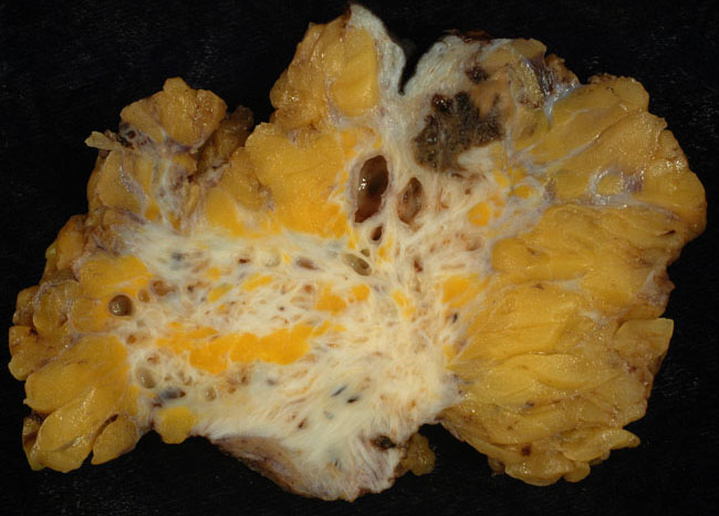 This obese woman in her thirties complained of an abdominal mass that her primary care doctor thought was an abscess. She was referred to a general surgeon for incision and drainage. The surgeon ruled out abscess by noting a three-month history of the complaint (abscesses are more acute processes) and by aspirating blood, rather than pus, from the lesion. As this was such a large and bothersome mass (the skin was about to break down over it) that the doctor decided to remove it surgically. The specimen was a bloc of adipose tissue with a small ellipse of skin over it. The skin showed a scar from a previous Caesarian section, interrupted by a blood-filled cyst resembling a bleb, but slightly deeper. This was just the tip of the iceberg, as section of the subcutaneous tissue revealed a complex network of white fibrous bands interrupted by blood-filled cysts and patchy areas of interstitial hemorrhage. The photo above shows a central slice through the specimen, with the small skin ellipse at top center. This slab measures 12 x 9.5 cm. Photograph by Ed Uthman, MD. Public domain. Posted 22 May 04